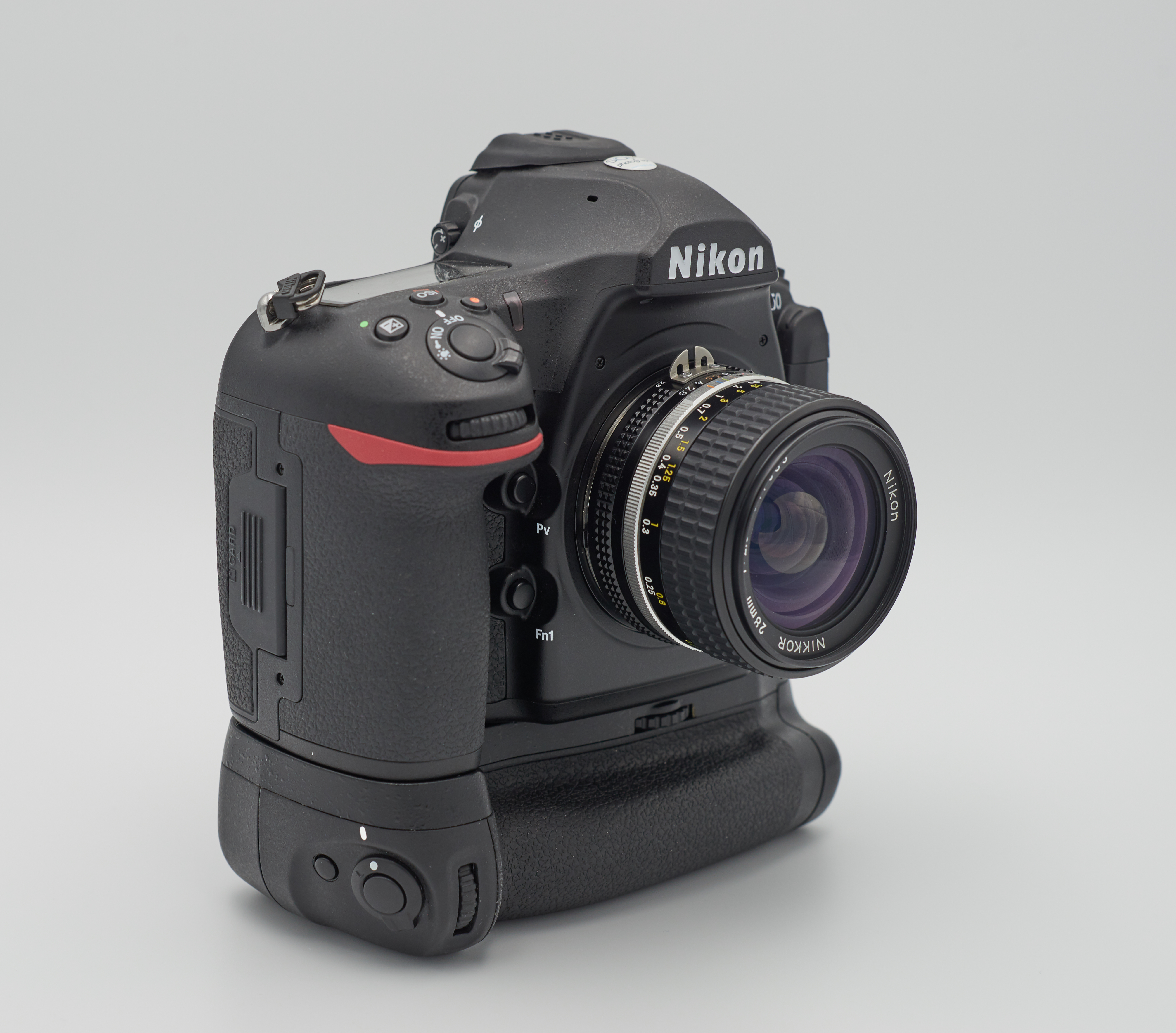 Nikon D850 with Nikkor AiS 28 mm f/2.8